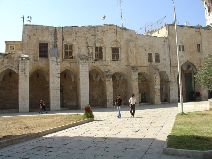 Al-Aqsa Mosque